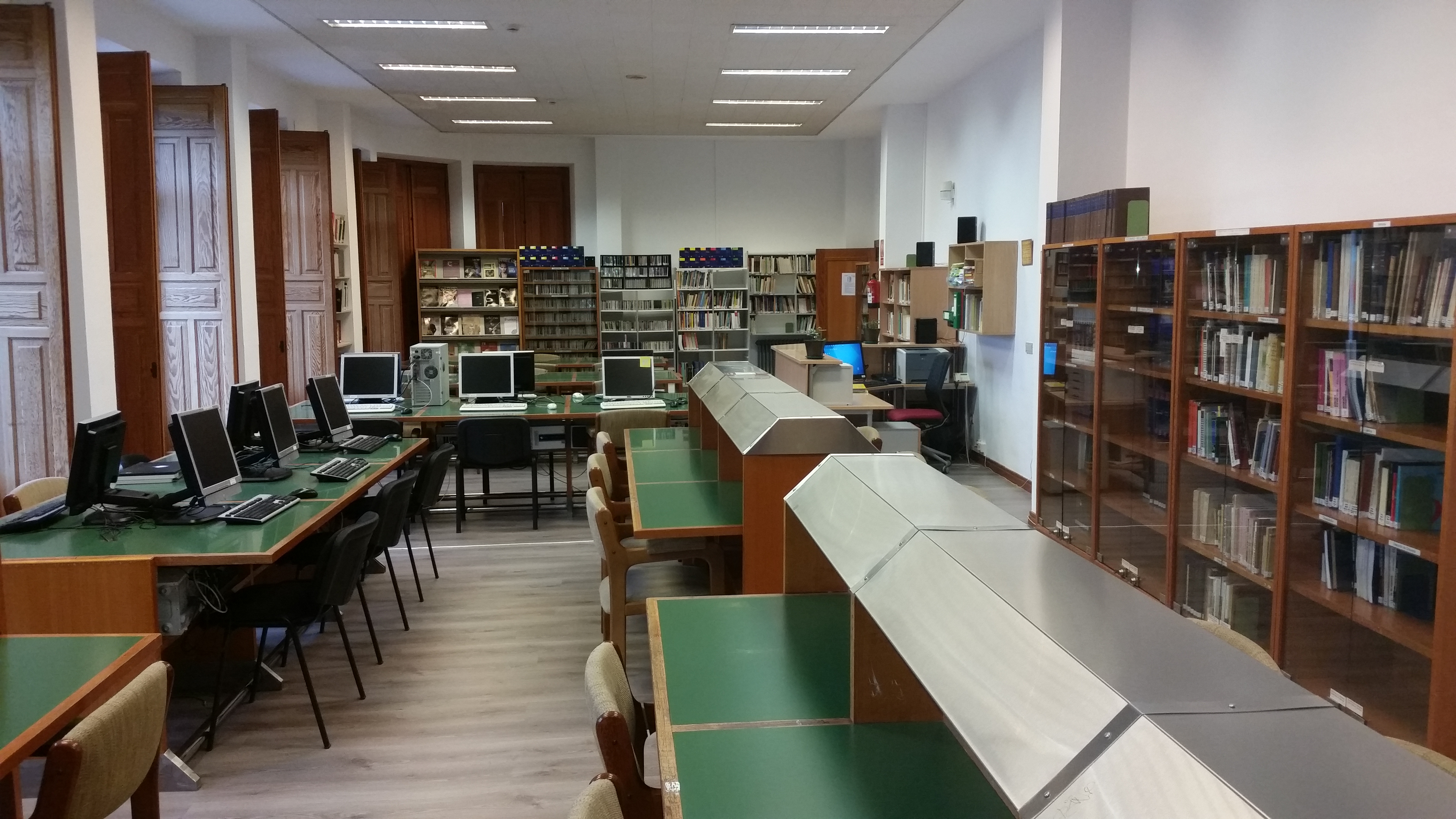 Reading room of Conservatoire Eduardo Martínez Torner